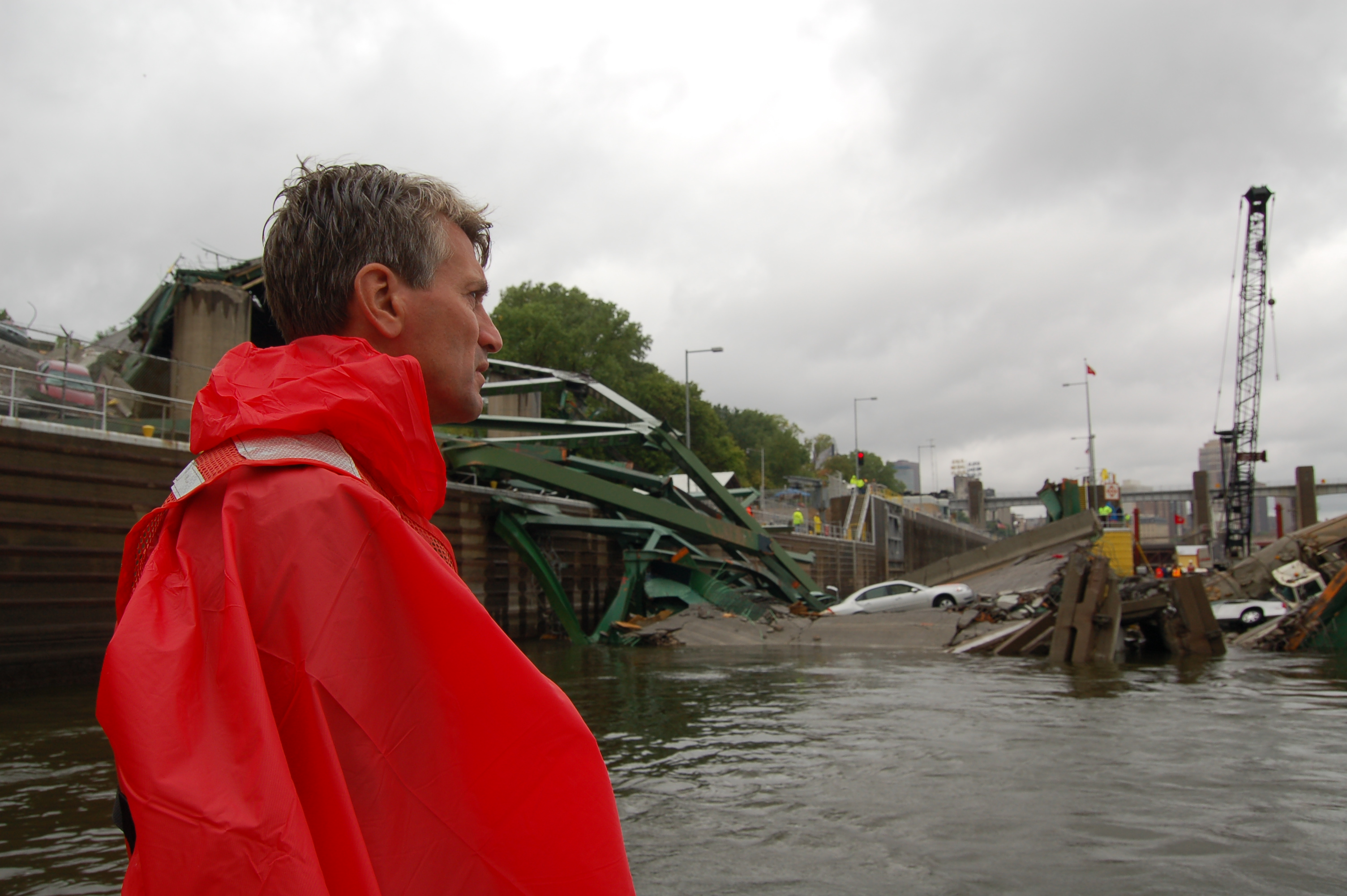 Minneapolis Mayor R.T. Ryback surveys the collapsed portion of I-35W Mississippi River bridge.